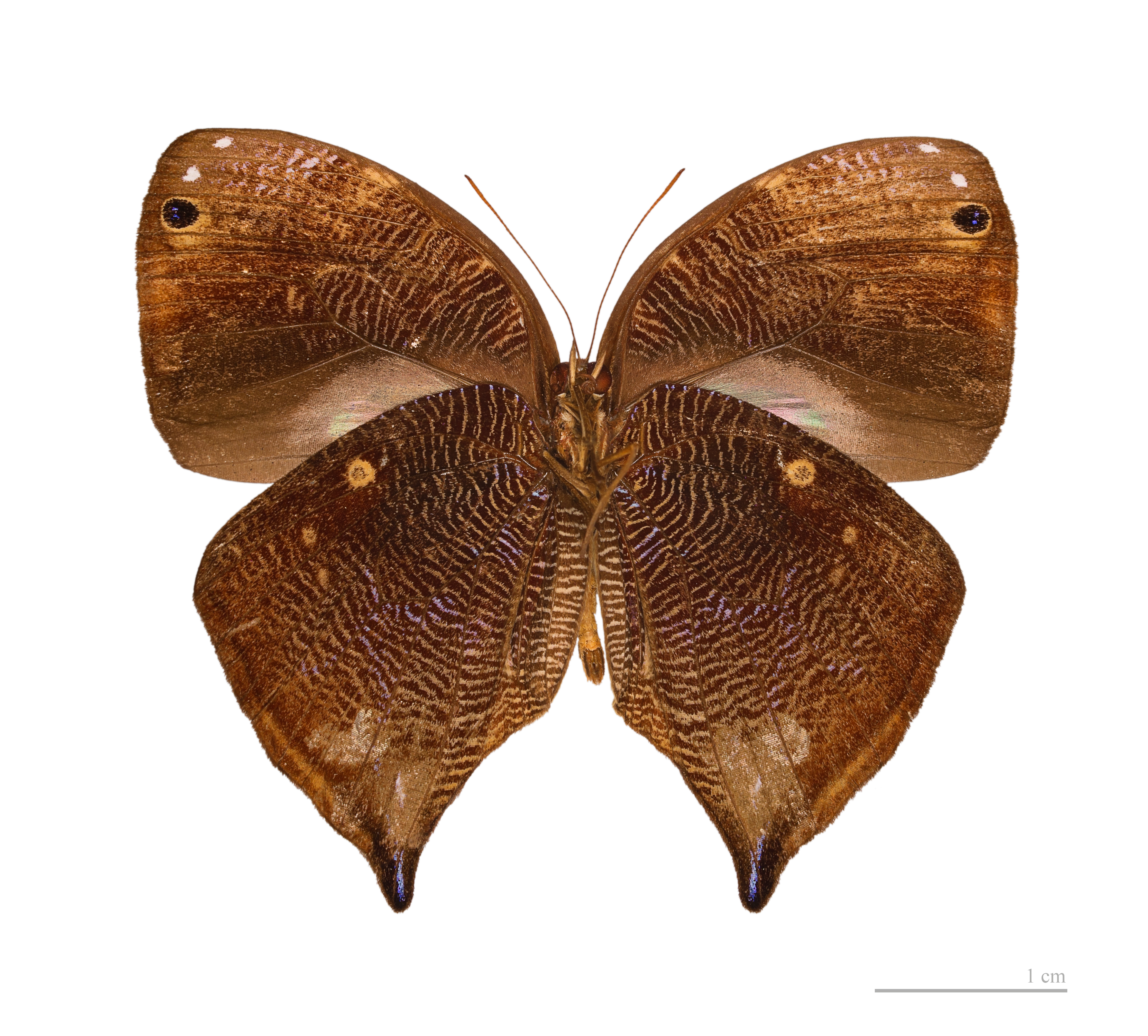 ♀ -△ Ventral side Locality : Cacao, piste des basins, French Guiana.